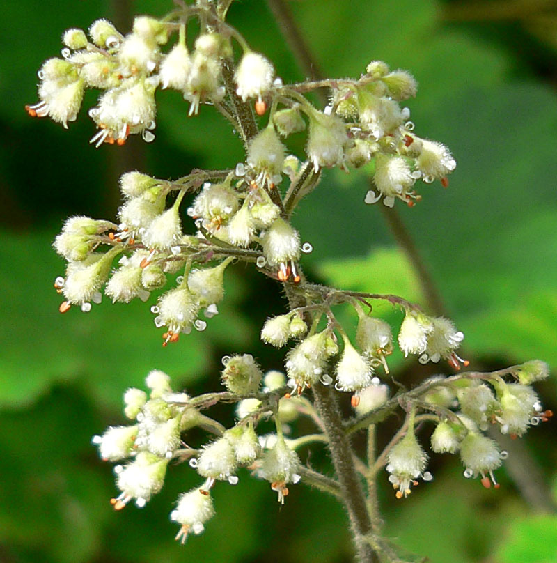 Photo of Heuchera maxima at the Regional Parks Botanic Garden, Berkeley, California